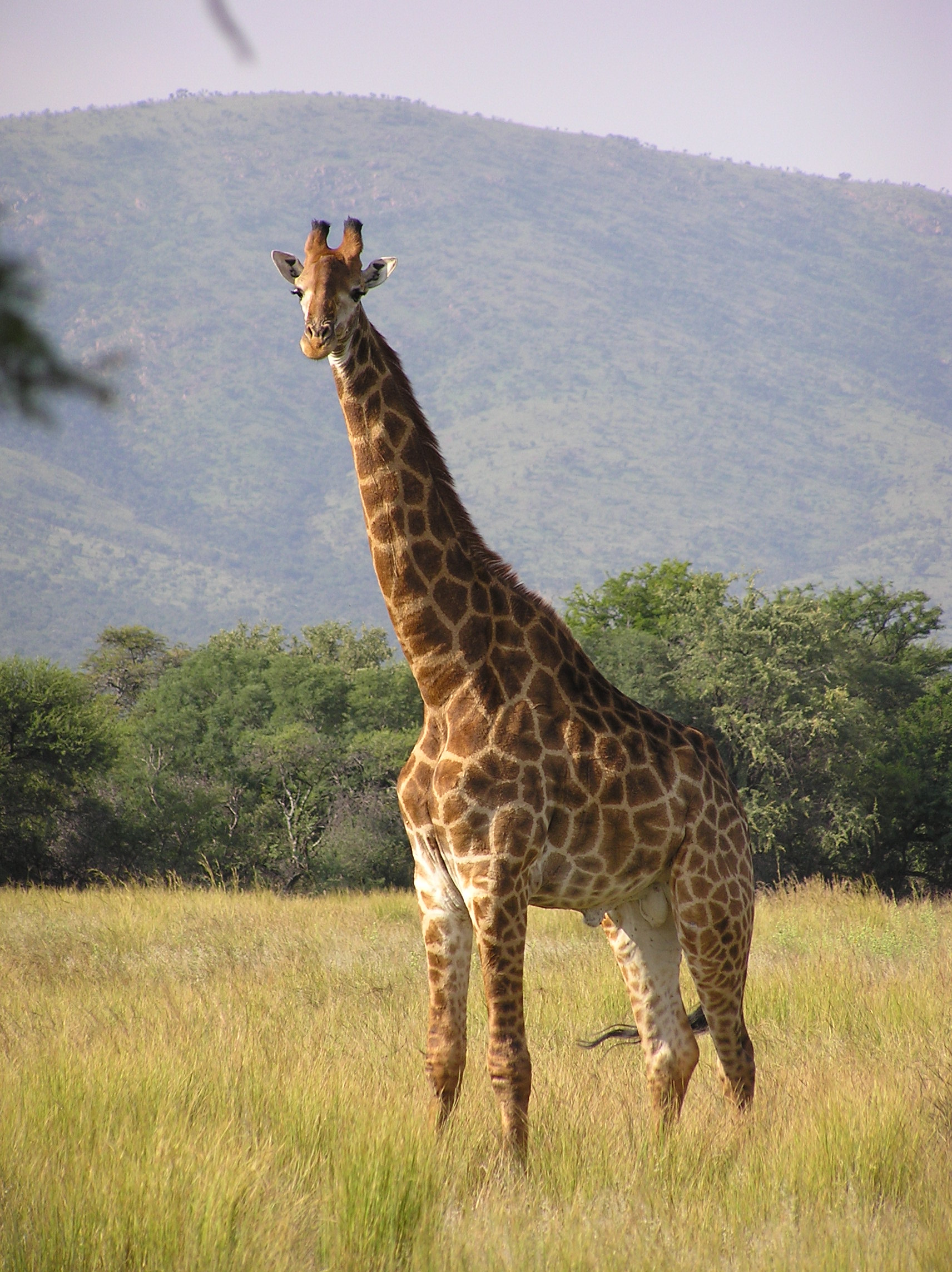 A bull giraffe in natural environment, South Africa